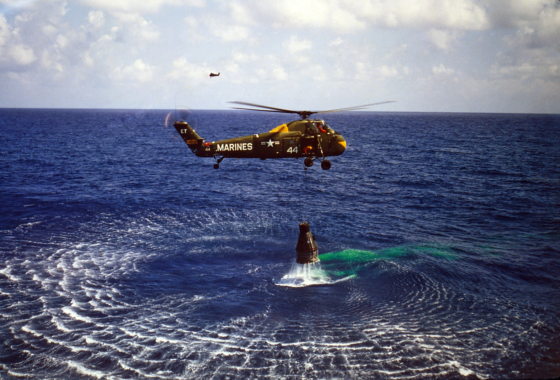 Alan Shepard 1961